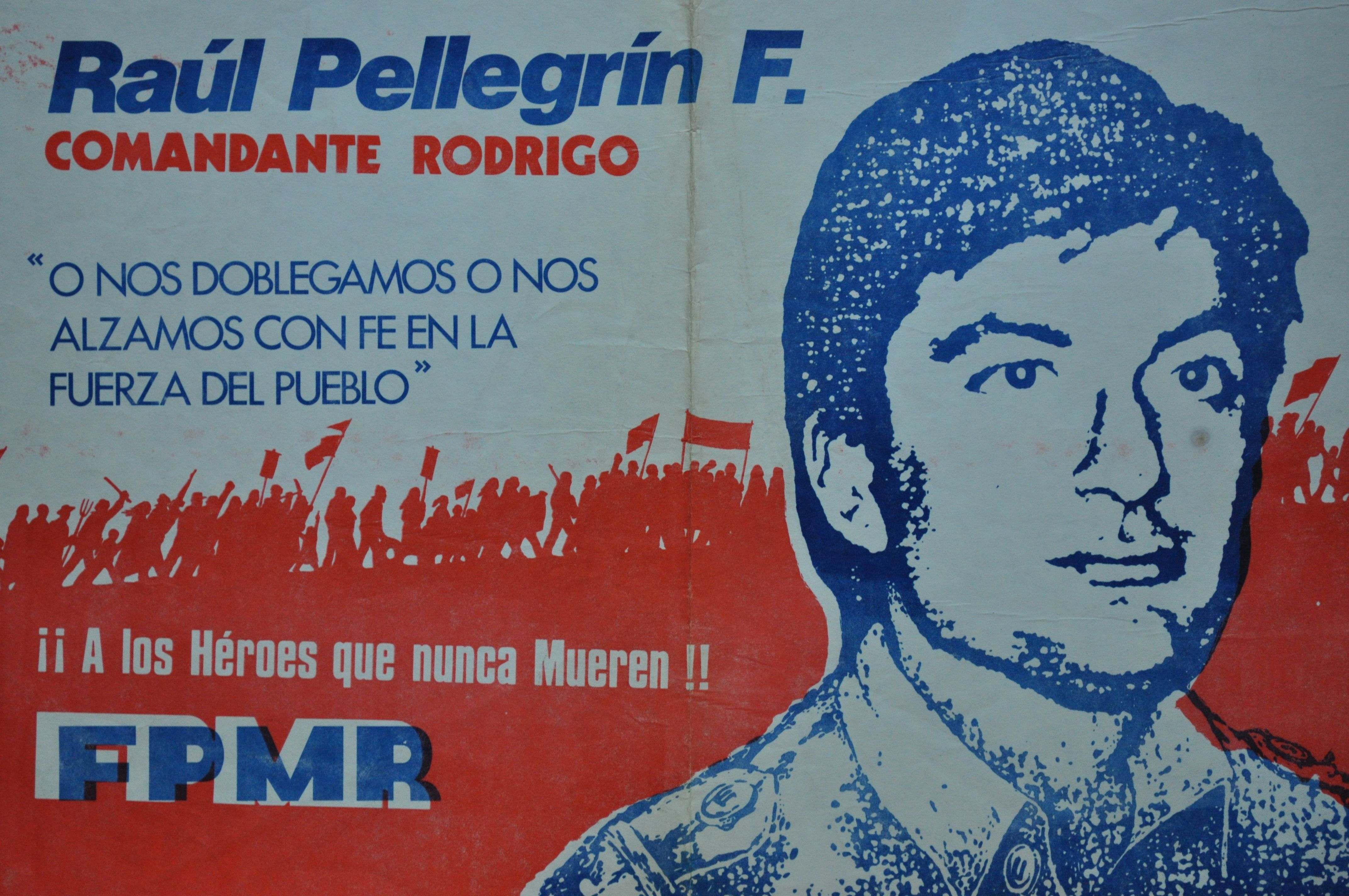 Poster attached to an underground magazine of the era of dictatorship in Chile ("El Rodriguista" Nr. 37, November 1988).